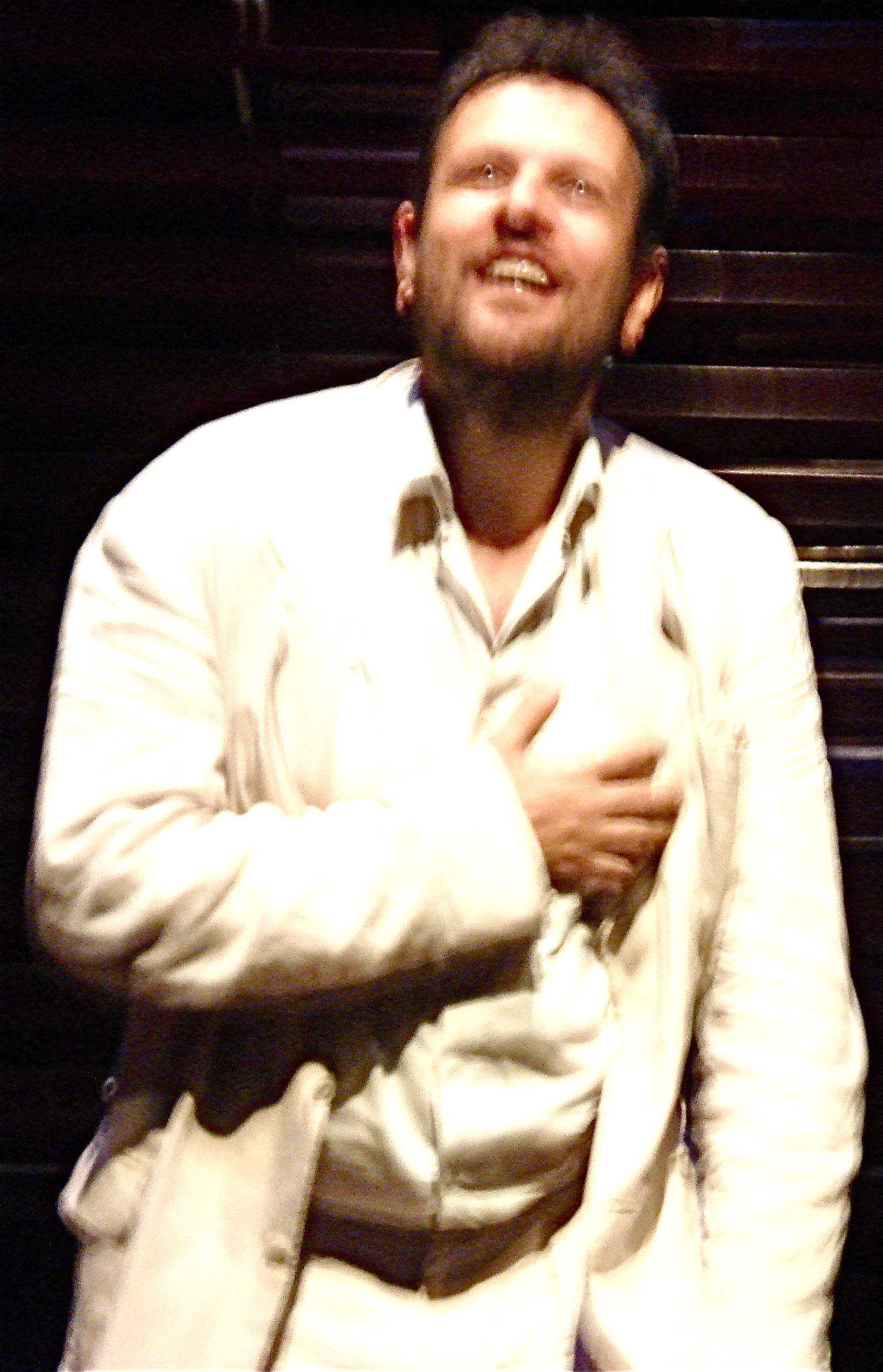 Celal Kadri Kınoğlu as Nazım Hikmet at the play "Why Did Benerji Kill Himself?"